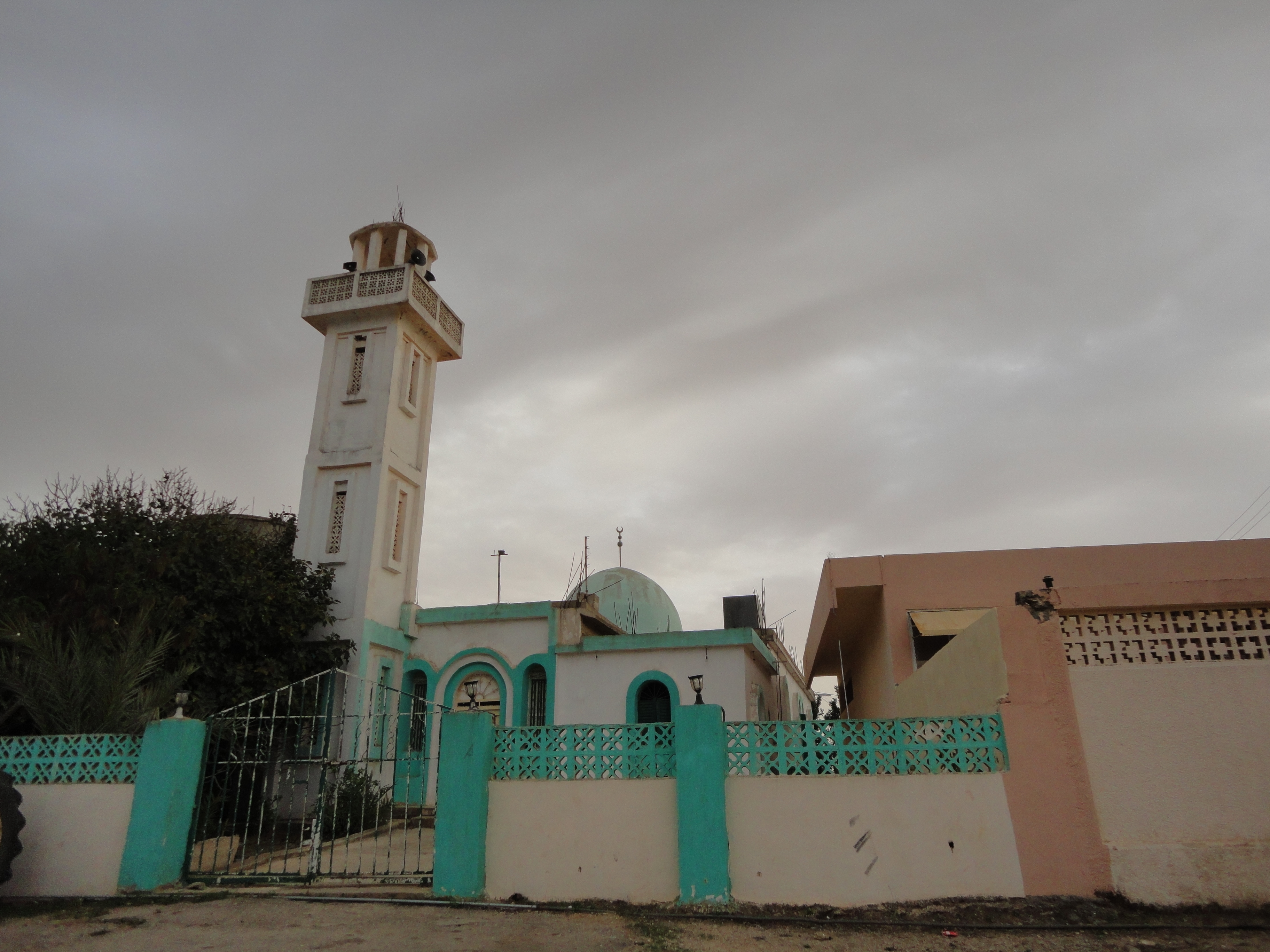 Bulgra Mosque -Bulgra region - Bayda, Libya .